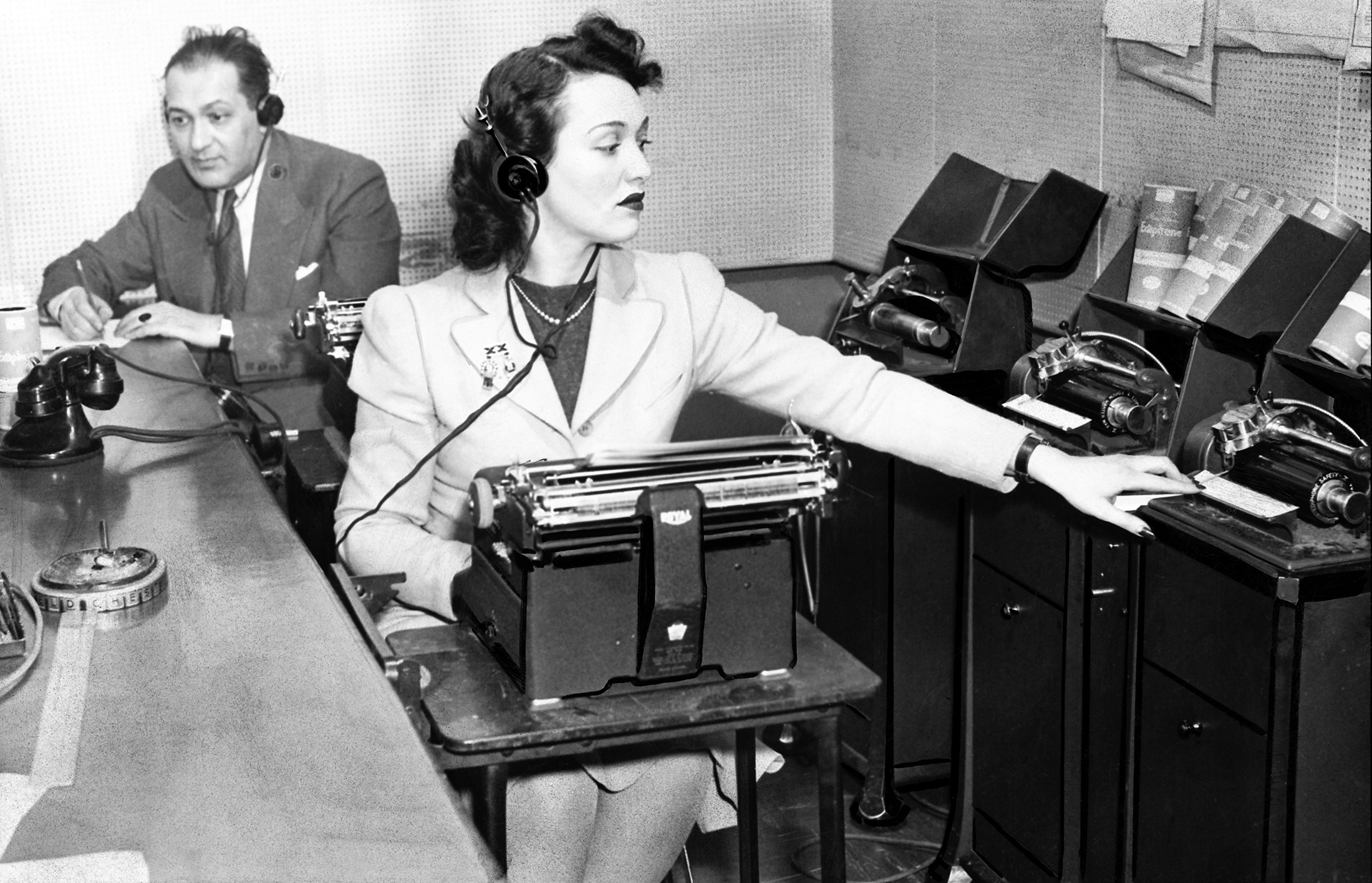 Promotional photograph of two staff at a CBS listening station, transcribing propaganda broadcasts from Europe